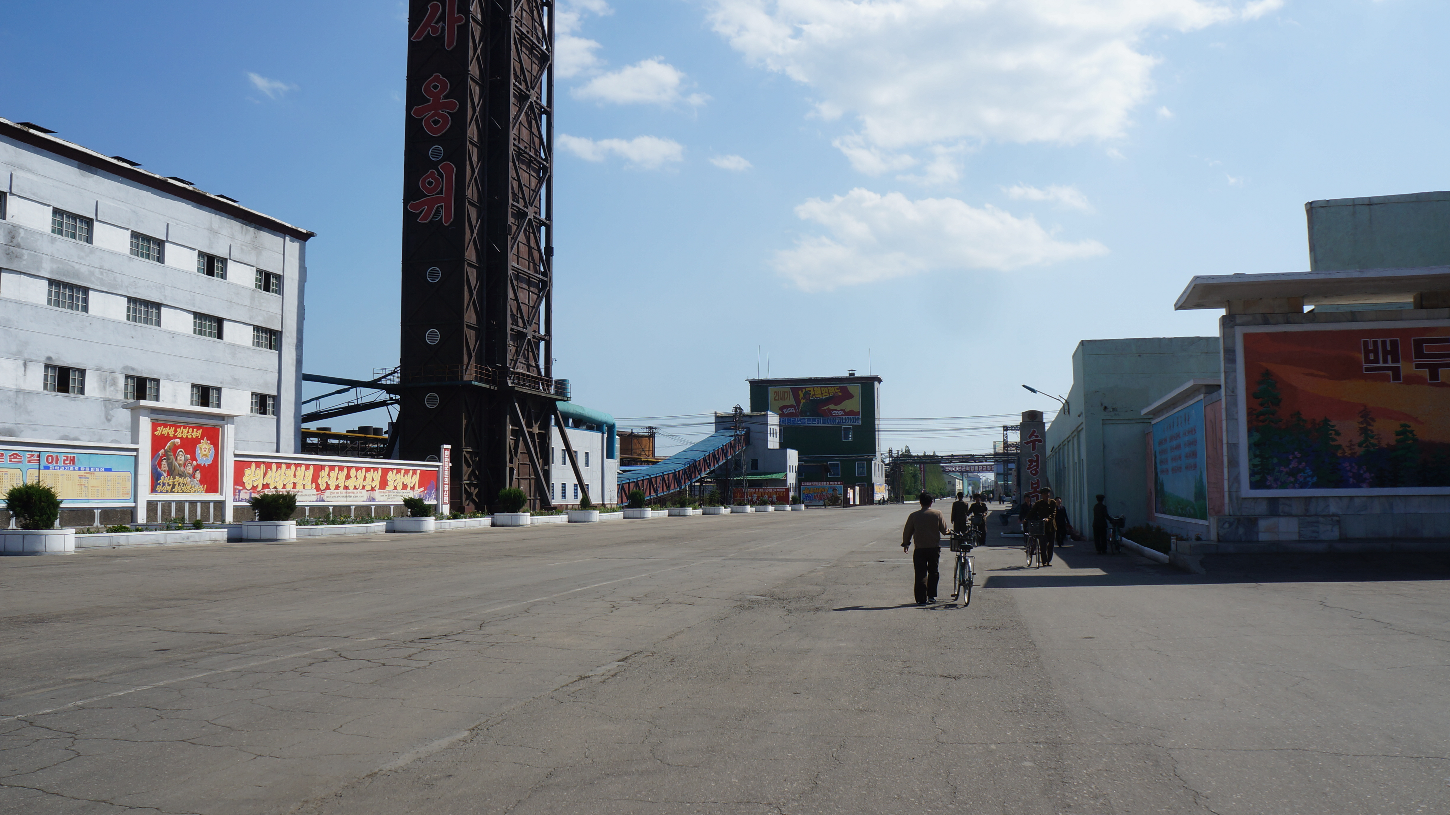 Fertilizer Factory, Hamhung